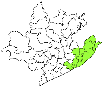 Visakhapatnam revenue division (in green) in Visakha district